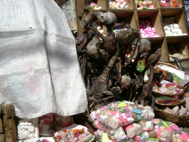 Mercado de Hechiceria, also known as "The Witches' Market", La Paz (Bolivia).